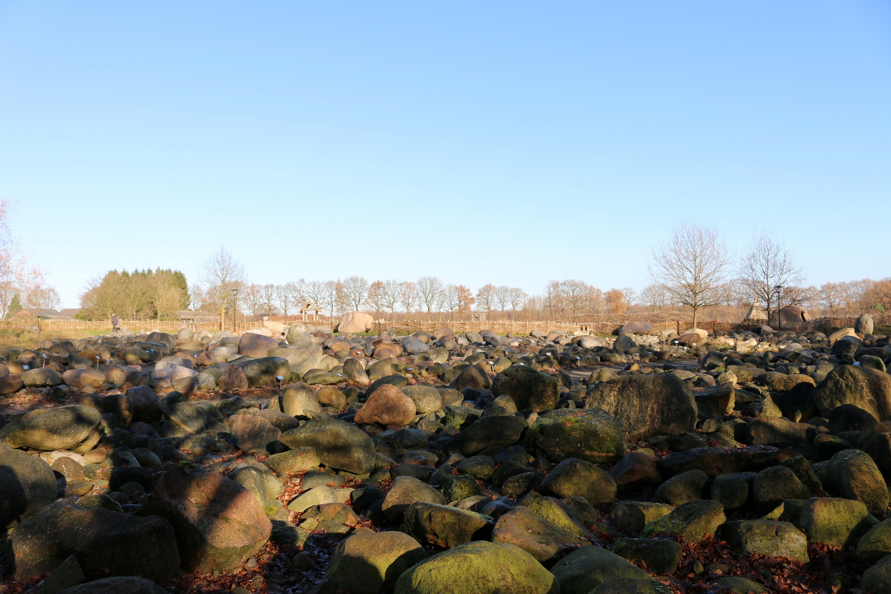 Geopark de Hondsrug - The Netherlands, Dec 2016 -- Photo by Persian Dutch Network